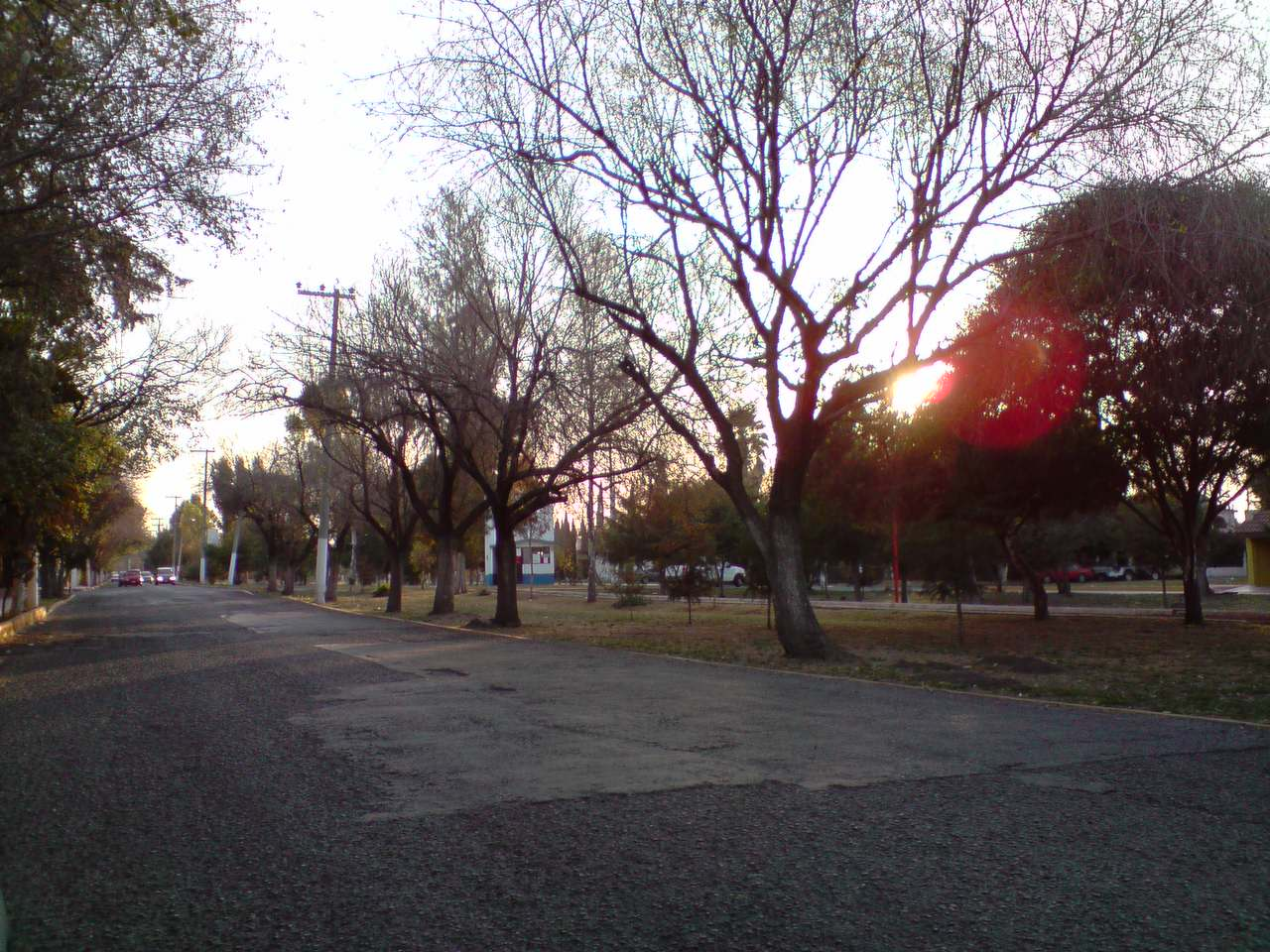 Boulevard Ojo de Agua Winter View